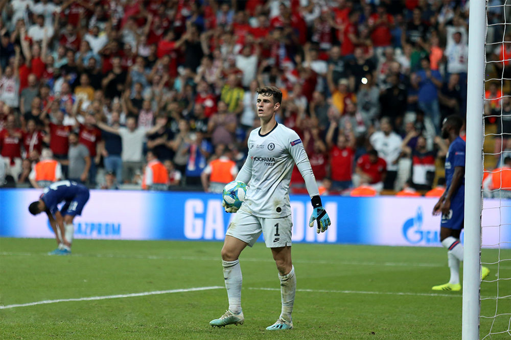 Liverpool vs. Chelsea, 2019 UEFA Super Cup